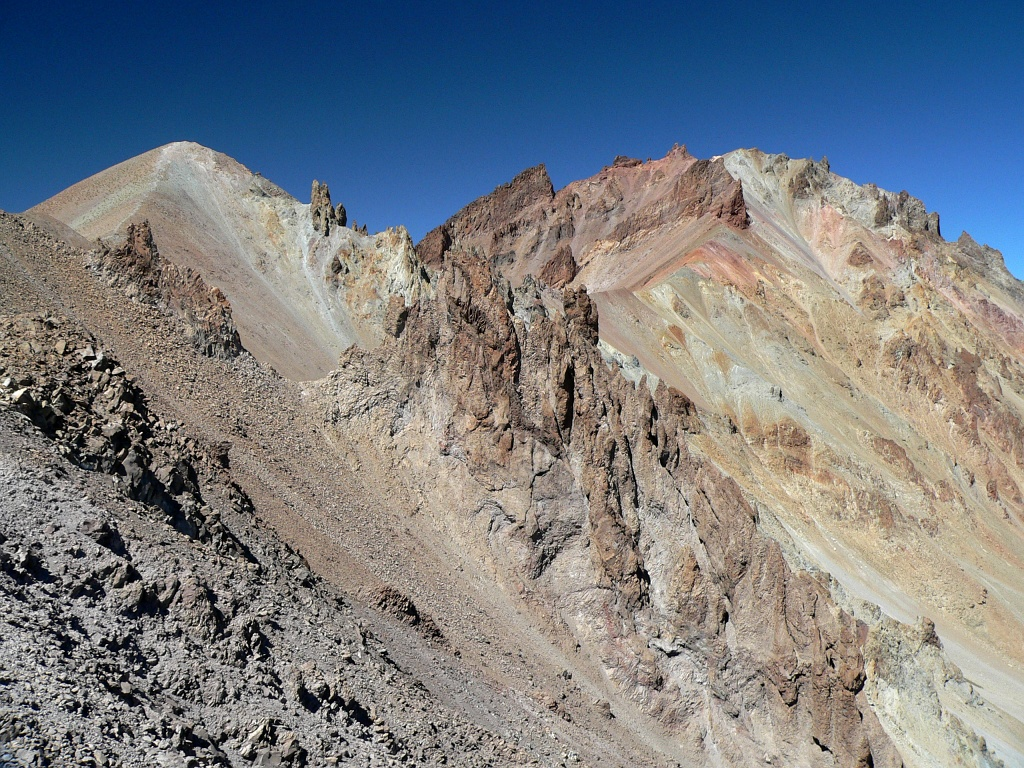 iç anadoluda kayserinin volkanik dağıdır üksekliği 3916 m dir 2006 yaz ayında çekildiği için üzerinde hiç kar kalmamıştır nadir görülen bir durumdur bu